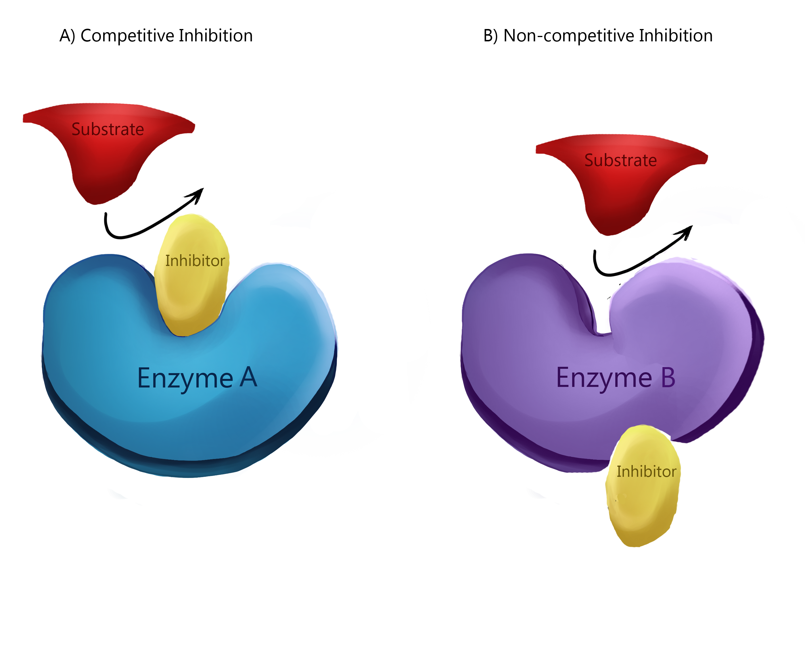 Enzyme inhibitors slow or stop the catalytic activity of enzymes by binding with their active sites.(A) Competitive inhibitors interfere directly with an enzyme’s binding site to ensure the substrate cannot fit. (B) Non-competitive inhibitors bind to an allosteric site of an enzyme, changing its shape